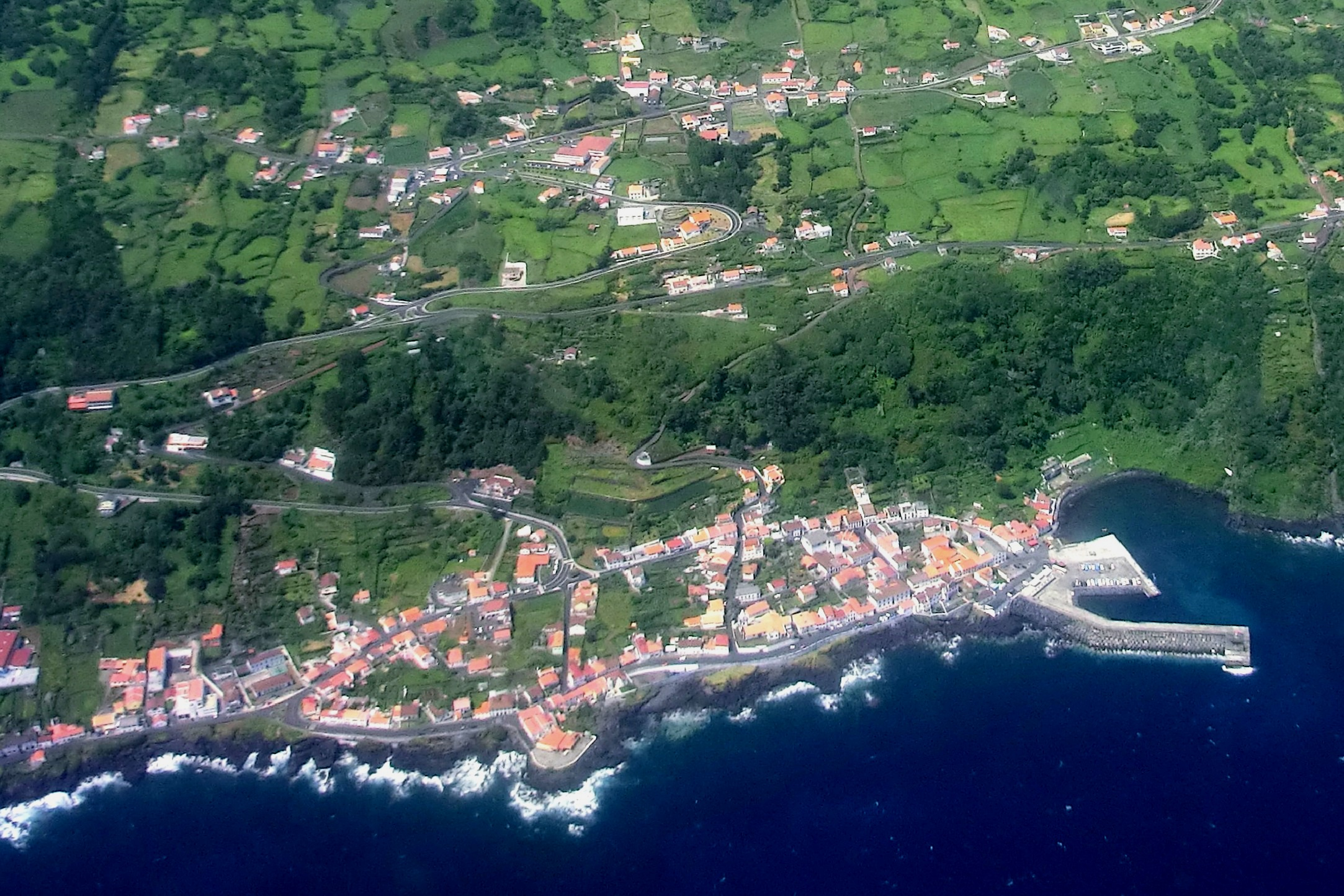 Calheta, São Jorge, Azores